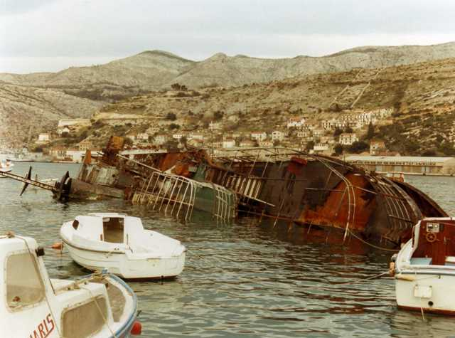 One of a set here